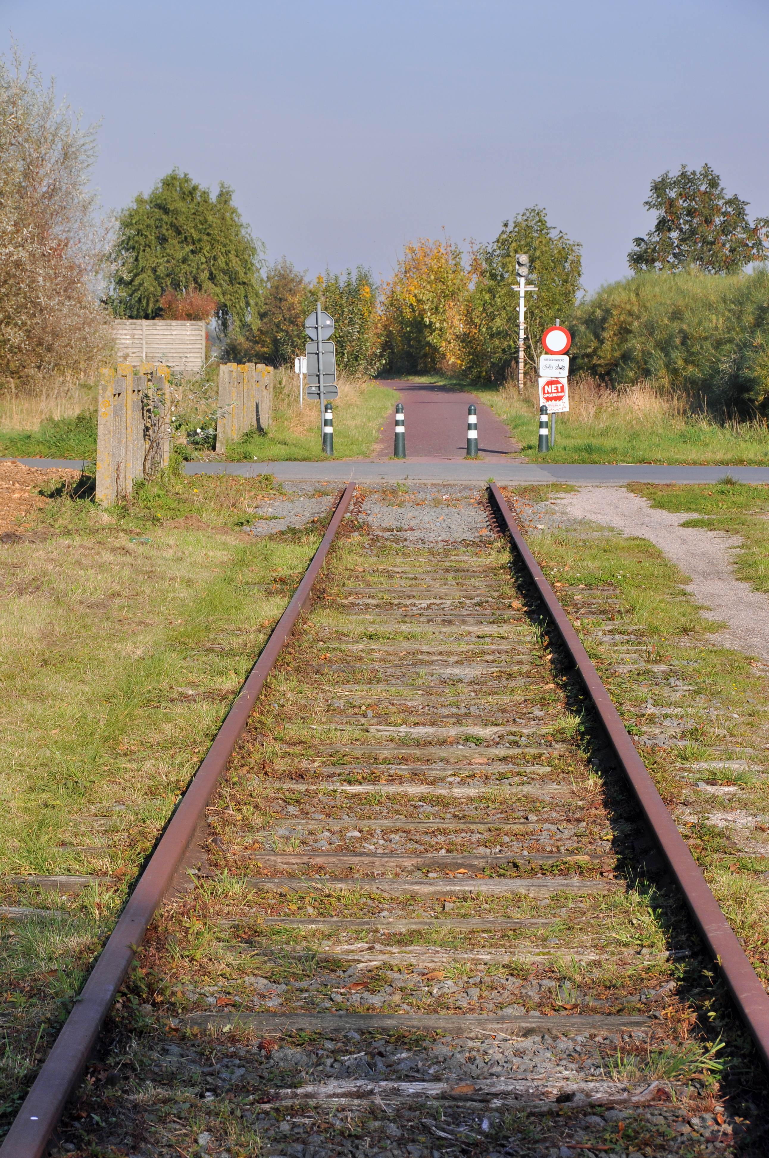 Former railway line #63 Torhout-Kortemark-Ypres (West Flanders, Belgium): a short section maintained as remembrance in Staden. In the background: broken up part transformed into a bikeway.